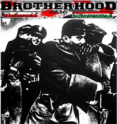 1956 Brotherhood